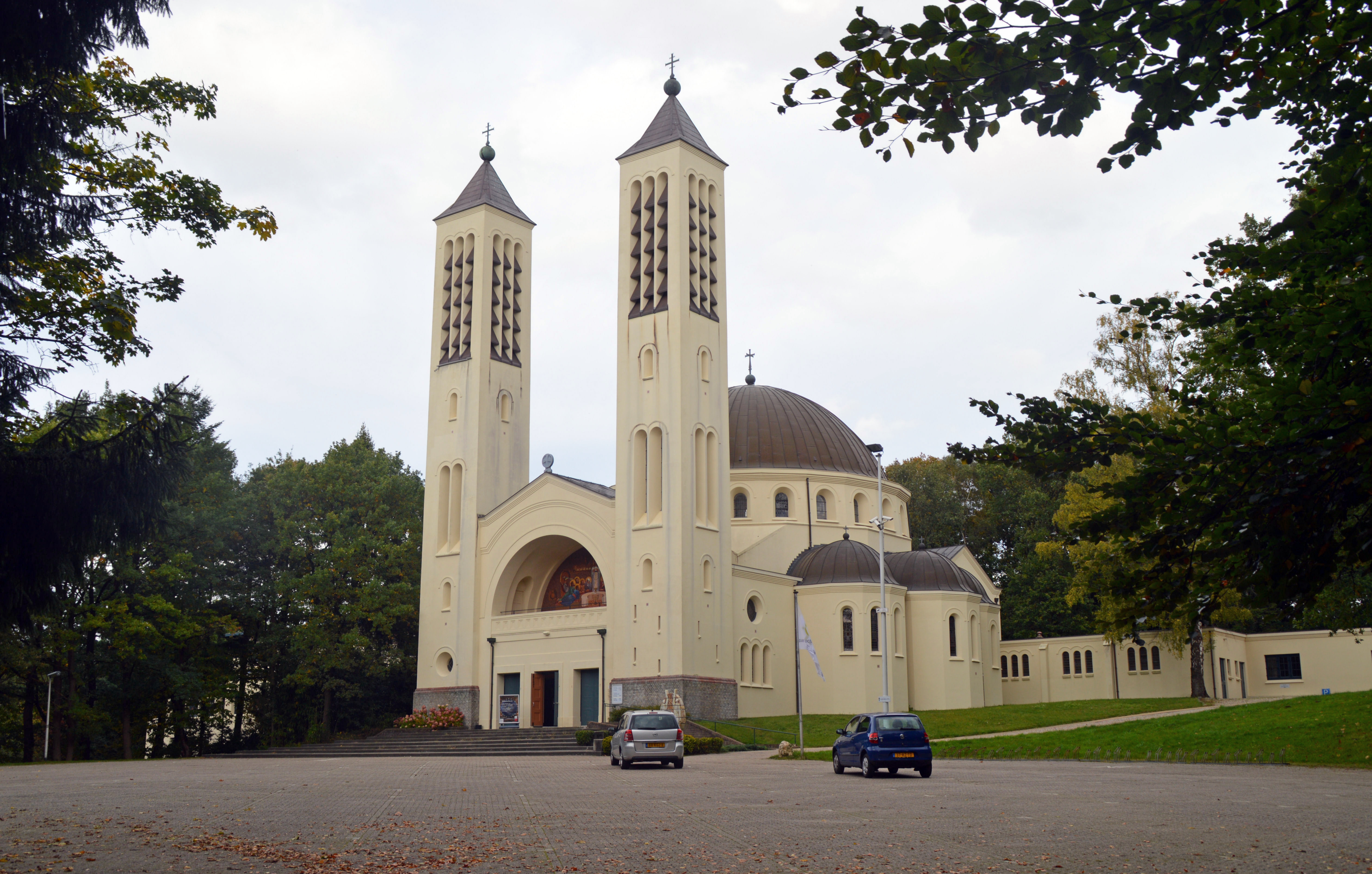 Cenakelchurch (Heilig Landstichting)